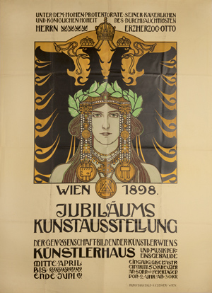 Künstlerhaus Archiv_ Plakat für die Jubiläums-Kunstausstellung im Künstlerhaus und im Musikvereinsgebäude, 1898, Entwurf Heinrich Lefler († 1919) (Künstlerhaus Archiv) © Künstlerhaus Archiv